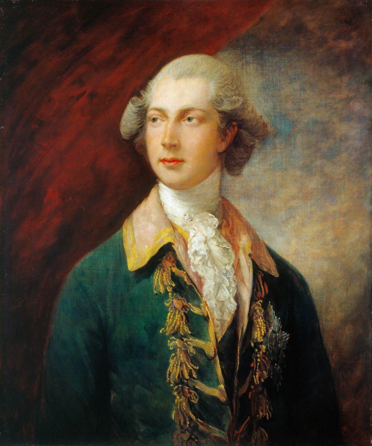 Portrait of George IV, when Prince of Wales